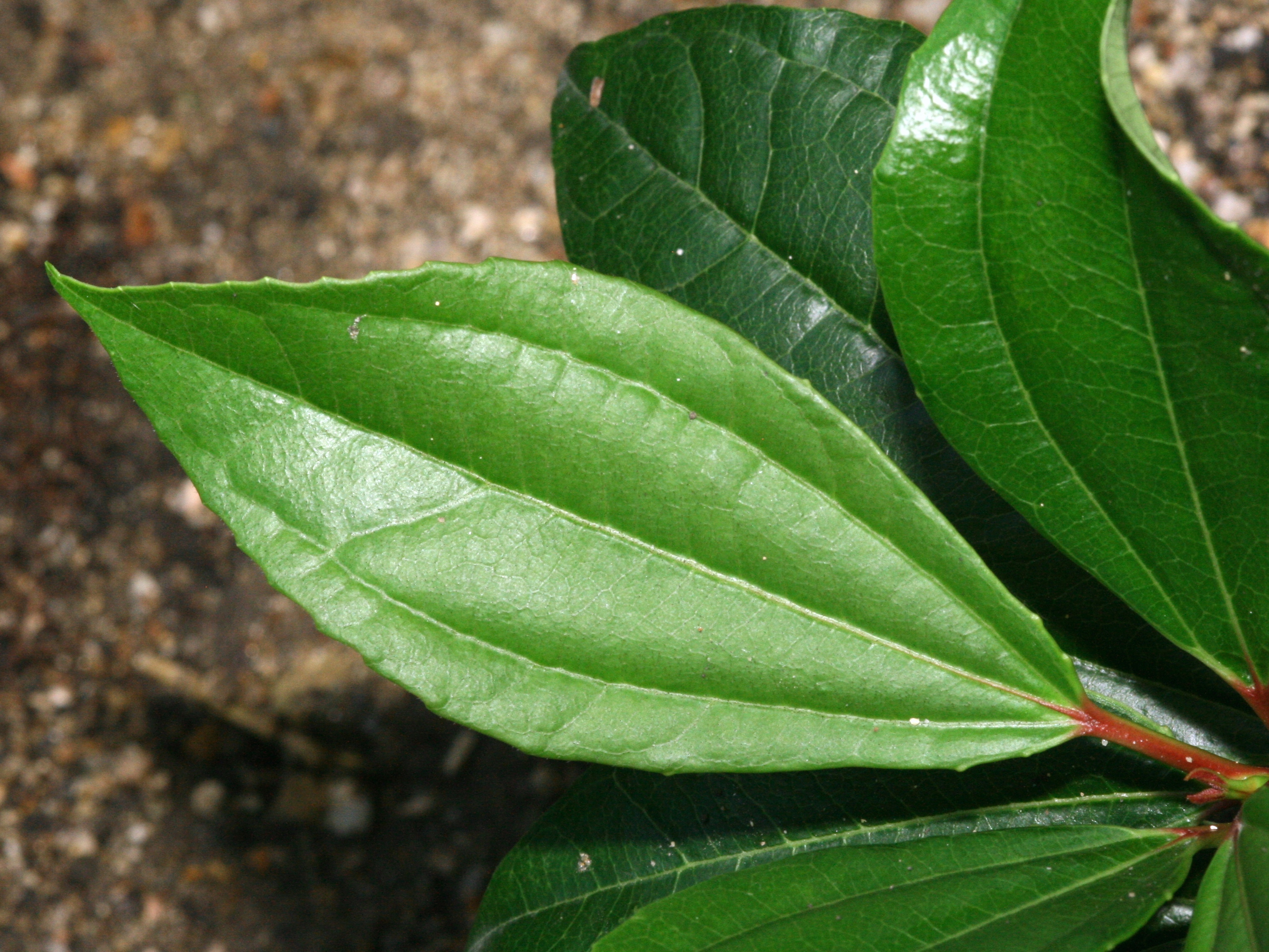 Leaf of Viburnum davidii, Arboretum in Brno, Czech Republic